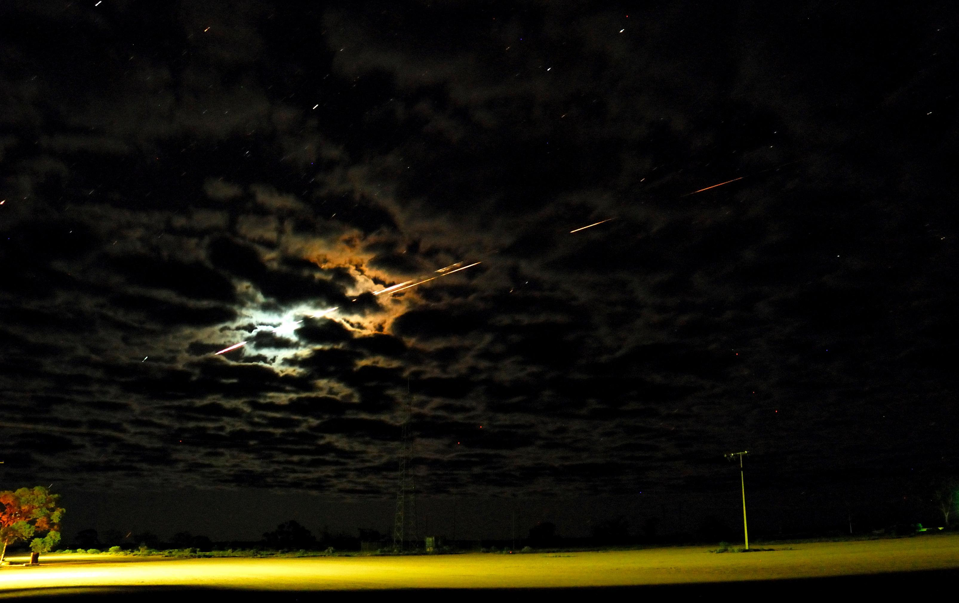 The JAXA Hayabusa spacecraft streaked across the sky like a sabre of light through the clouds as it re-entered Earth’s atmosphere over the Woomera Test Range in Australia. In Kingoonya, the spacecraft’s re-entry was visible to the human eye for only 15 seconds.